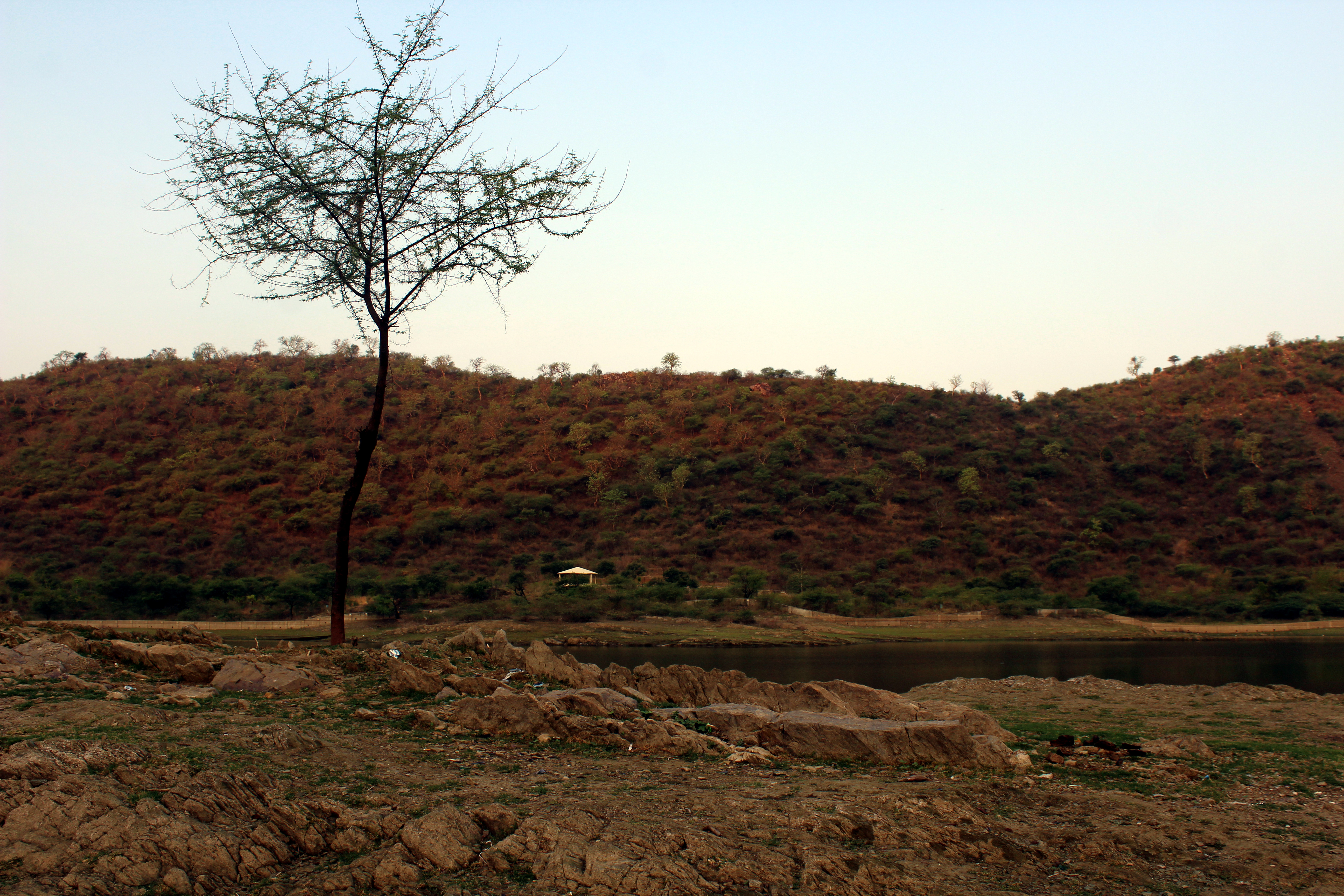 Lake of Badi, below the Aravalli hills! Seen behind is a part of Sajjangarh wild life.